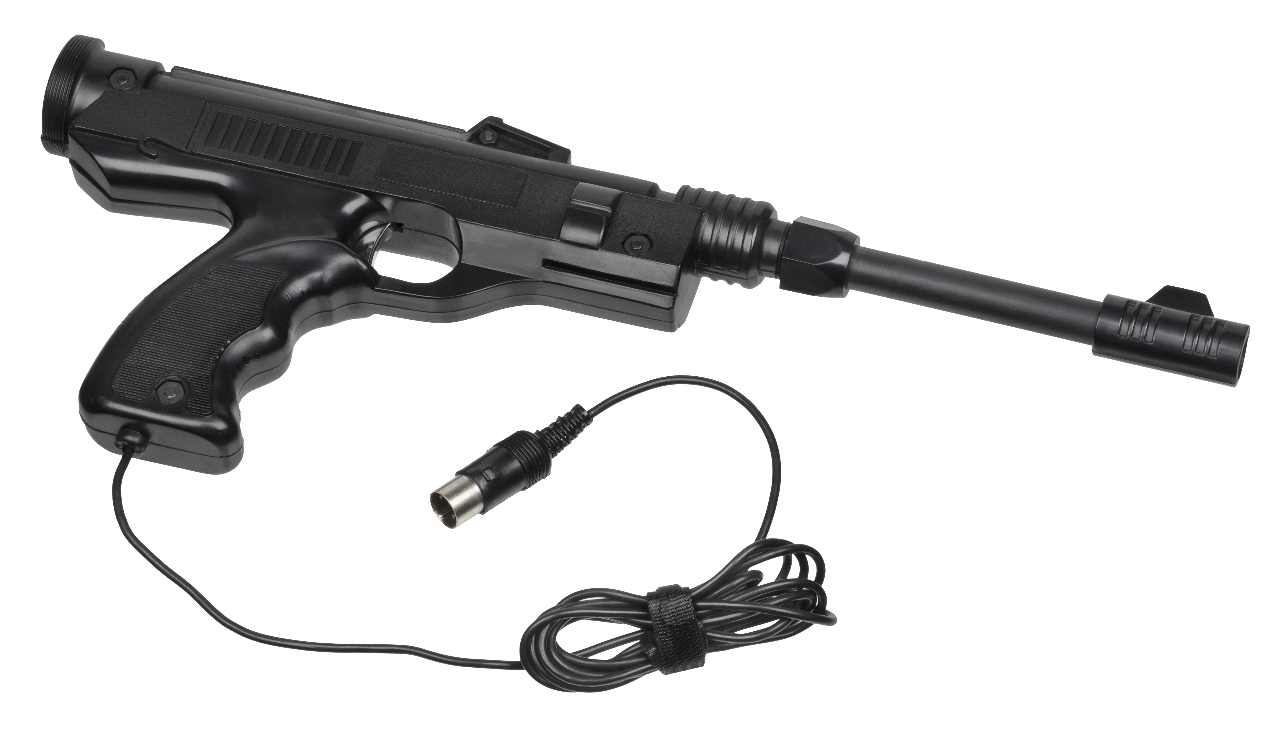 The light gun for the APF TV Fun (model 402C), a Pong console released by APF Electronics in 1976.